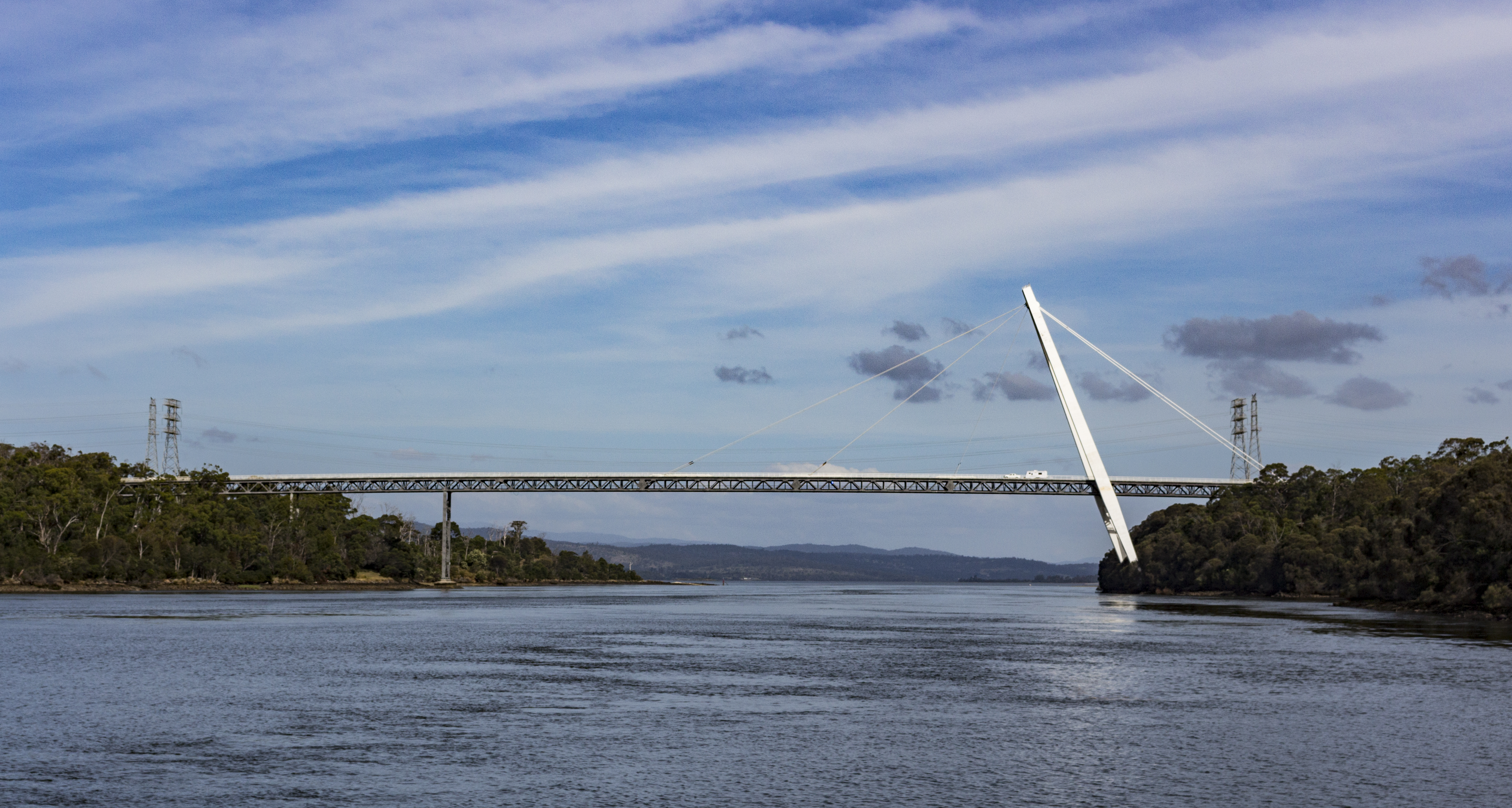 Build a beautiful bridge and then stick power pylons next to it. Maybe it's an intentional juxtaposition.